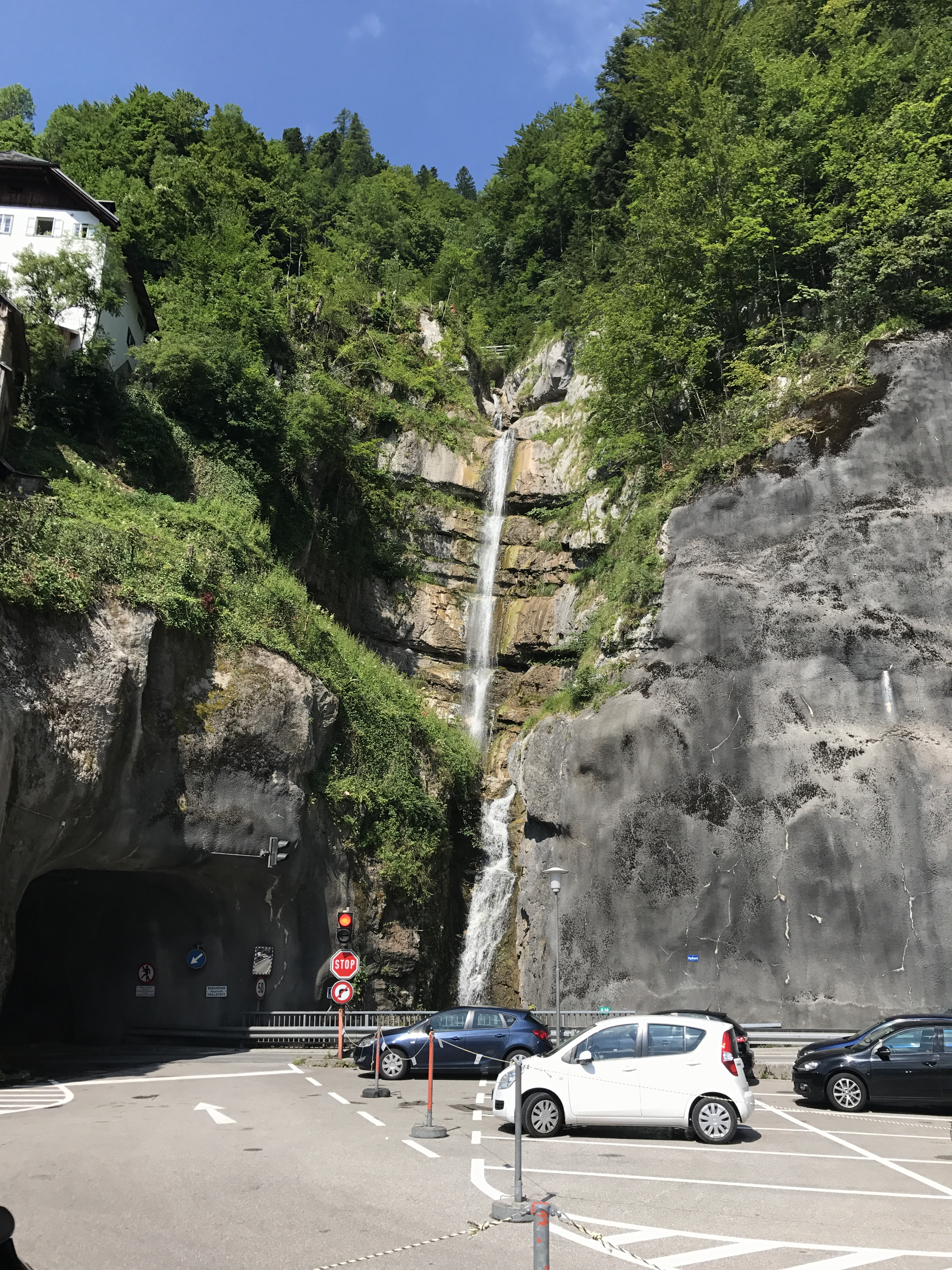 Mühlbach wasserfall near Hallstatt, Austria.